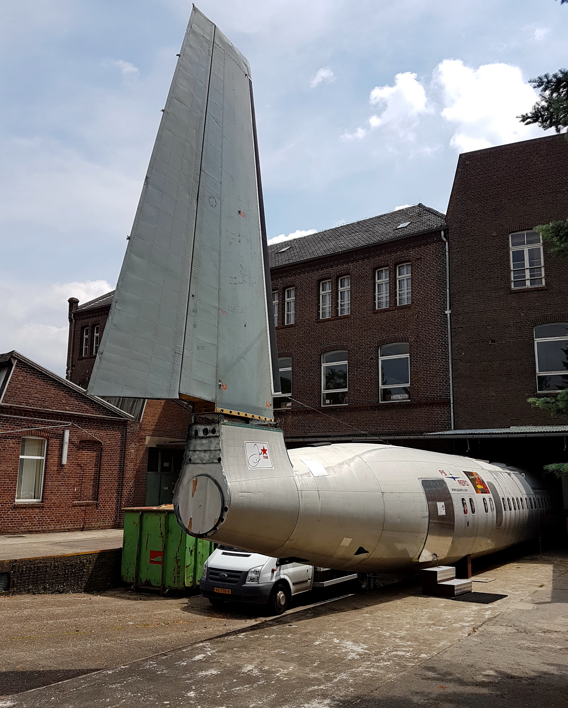 Fokker 50 airplane at the back entrance of the former printshop of Missiehuis Sint-Michaël along Sint Michaëlstraat in Steyl-Tegelen, Limburg, the Netherlands. The monastery in Steyl is the motherhouse of the Society of the Divine Word (Latin: Societas Verbi Divini or SVD) of Roman Catholic missionaries. This part of the printshop complex is now a museum (Wereldpaviljoen).